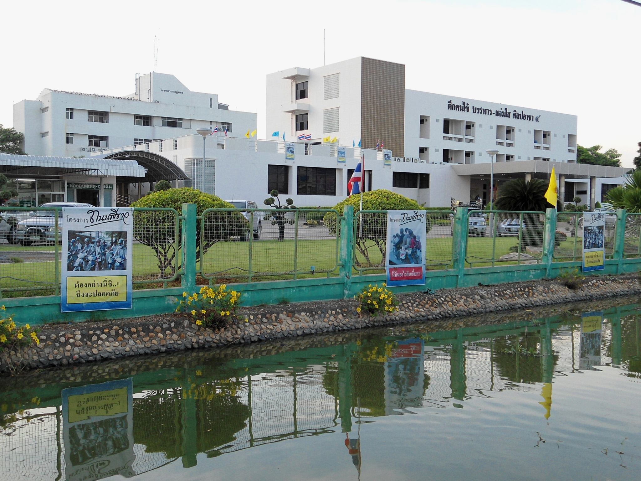 Municipal hospital, U Thong district, Suphamburi province